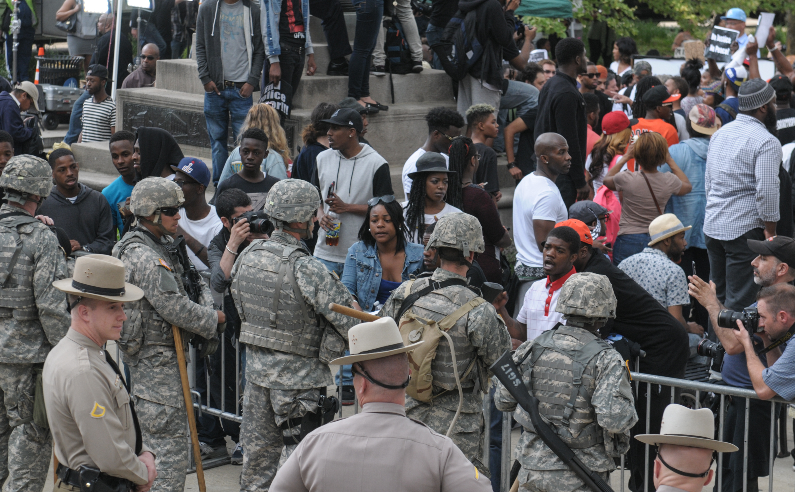 Maryland Army National Guard Soldiers and local law enforcement watch protesters gathered in front of City Hall, Baltimore, April 30, 2015. The marchers shouted slogans calling for justice, equality and peace for fellow Baltimore residents. The Maryland National Guard was activated for the first time since 1968 to assist with peacekeeping operations while unrest continues in Baltimore. (Photo by U.S. Army National Guard Sgt. Margaret Taylor, 29th Mobile Public Affairs Detachment)